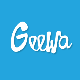 This is the current revision of the logo of Geewa a.s., the online and mobile games company